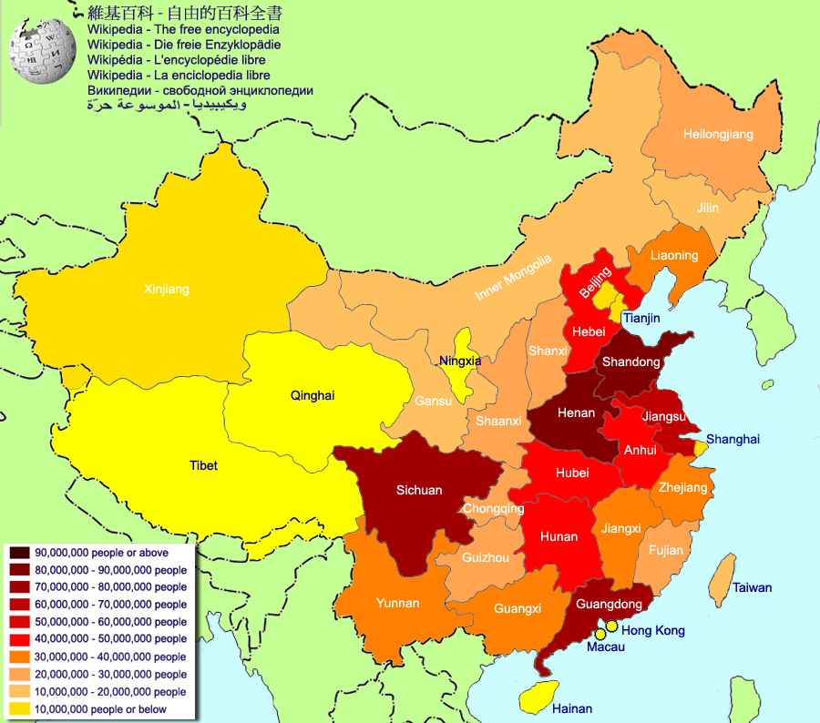 The map for the population of the first-level administrative regions of China